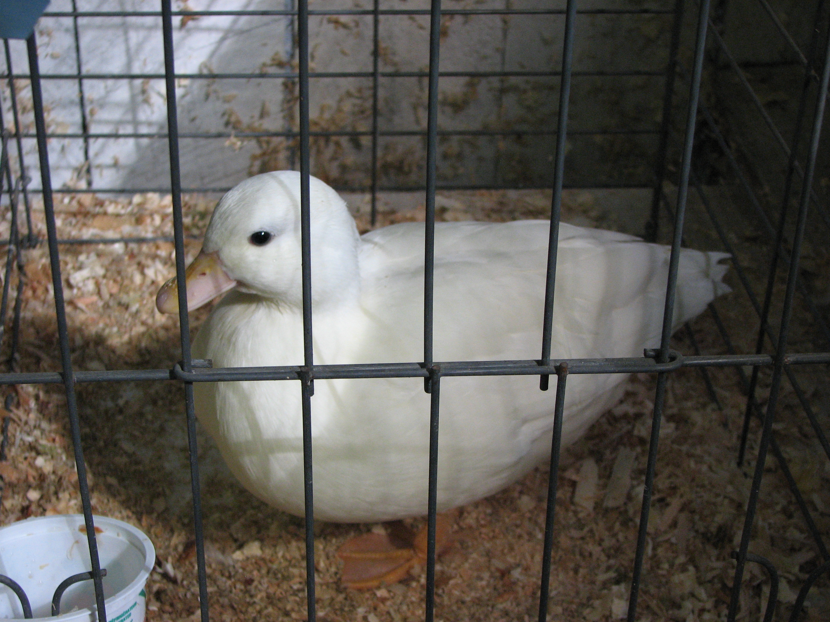 A white Call Duck at a fair.